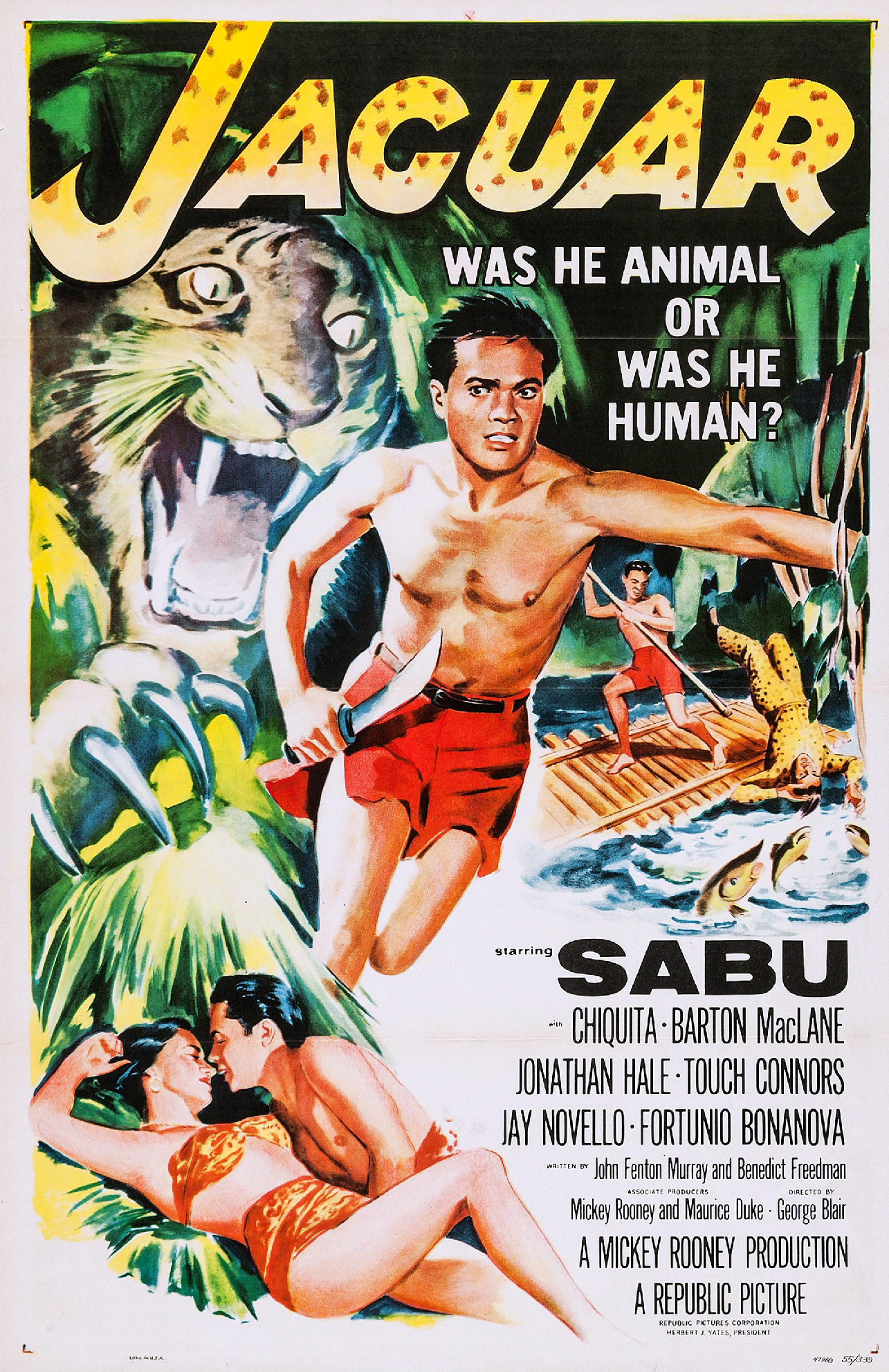 Poster for the 1956 film Jaguar. There are no copyright marks. At bottom is Litho in USA and 47968 55/339.